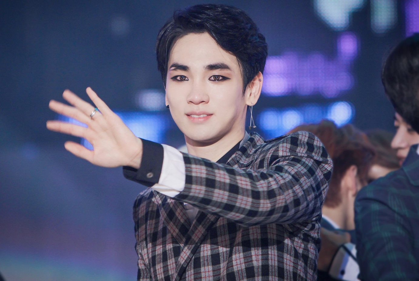 Key at the Melon Music Awards on November 14, 2013.